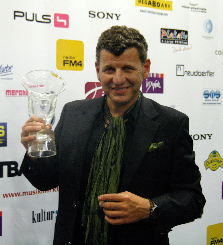 Semino Rossi at the Amadeus Austrian Music Award 2010 (Wiener Stadthalle, Vienna, Austria)